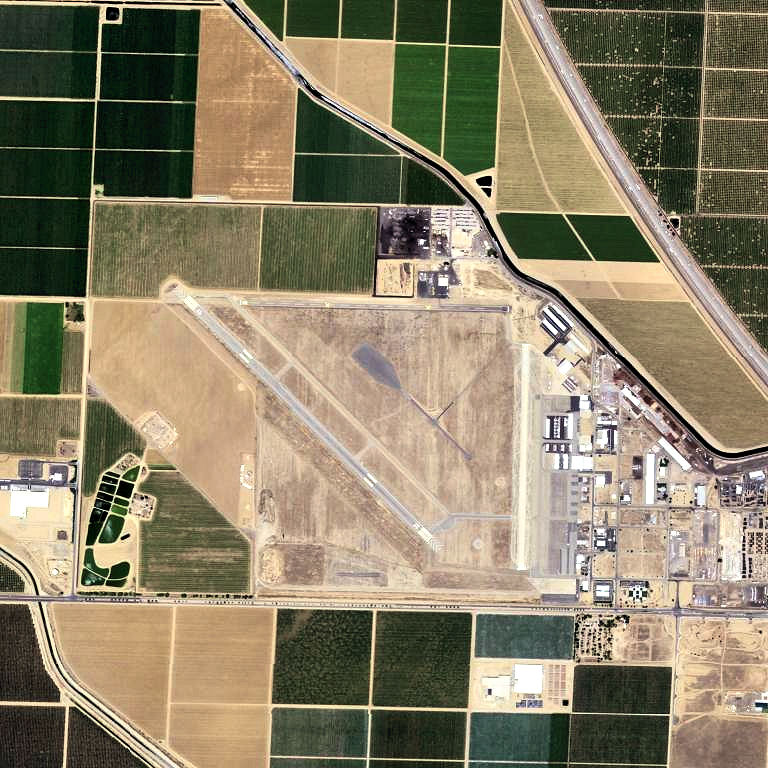 USGS digital orthophoto of Shafter Airport in California